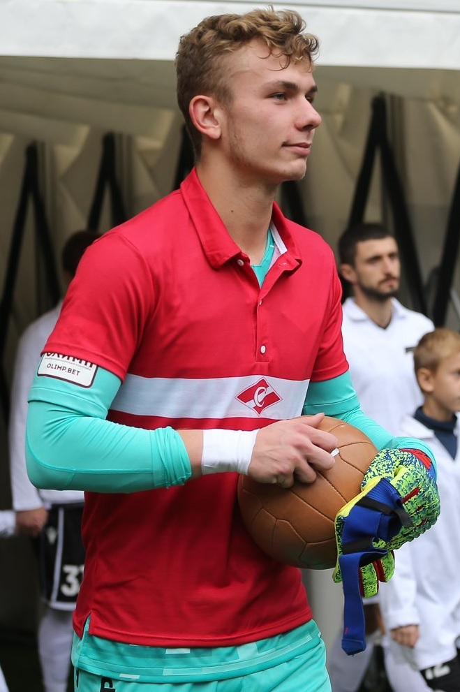 Anton Shitov with FC Spartak-2 Moscow in a game against FC Torpedo Moscow.